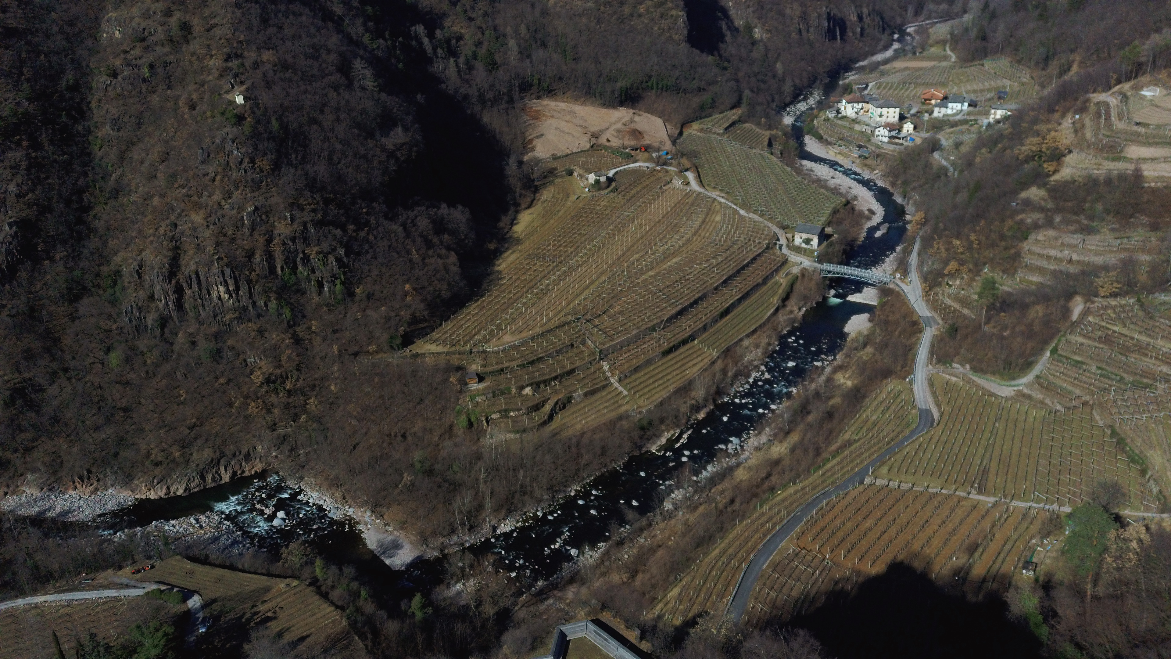 The Avisio River, the bridge of Cantilaga and the town of Prà (Segonzano, Trentino, Italy)